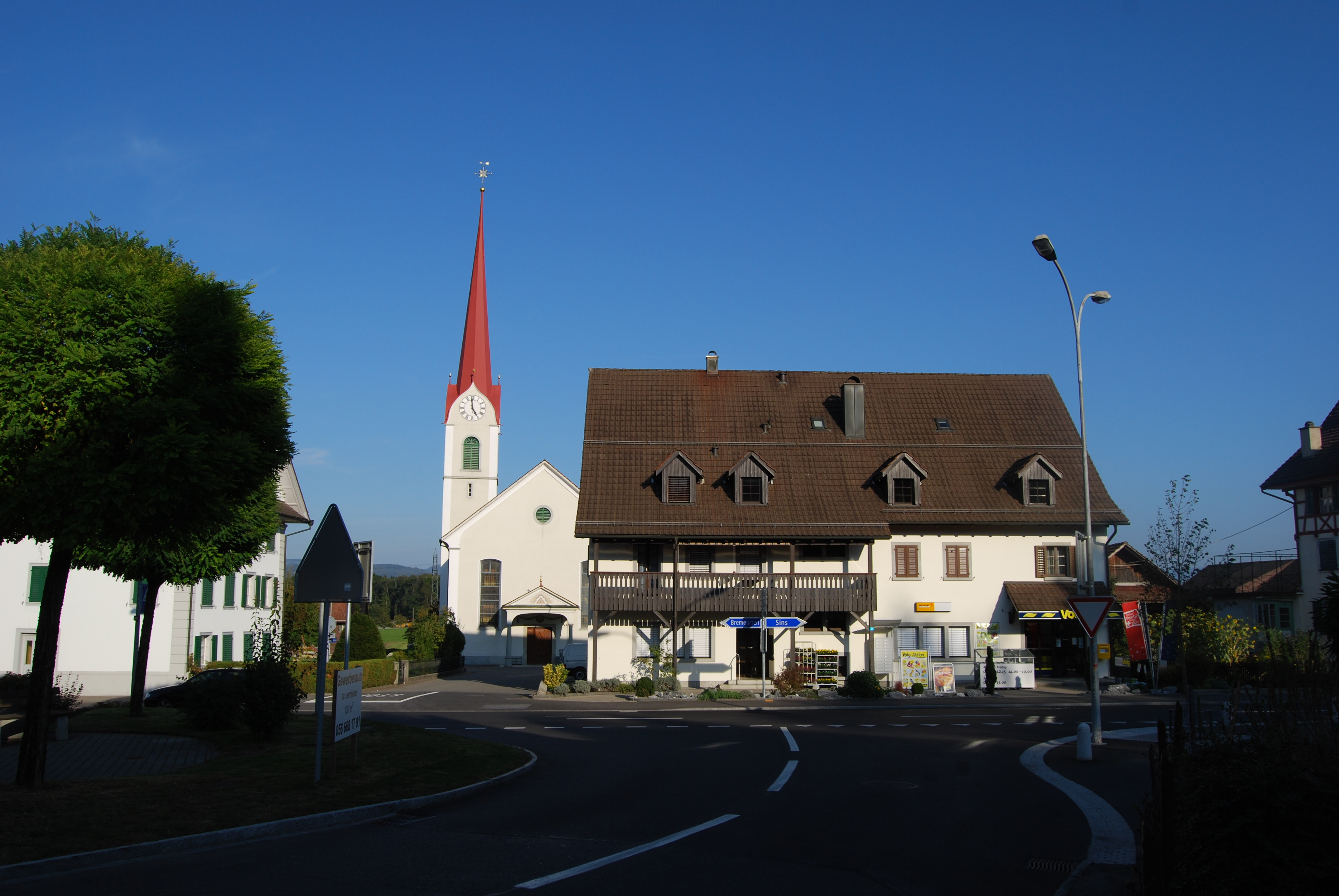 Church of Mühlau, canton of Aargau, SwitzerlandEsperanto: Preĝejo de Mühlau, Kantono Argovio, Svislando